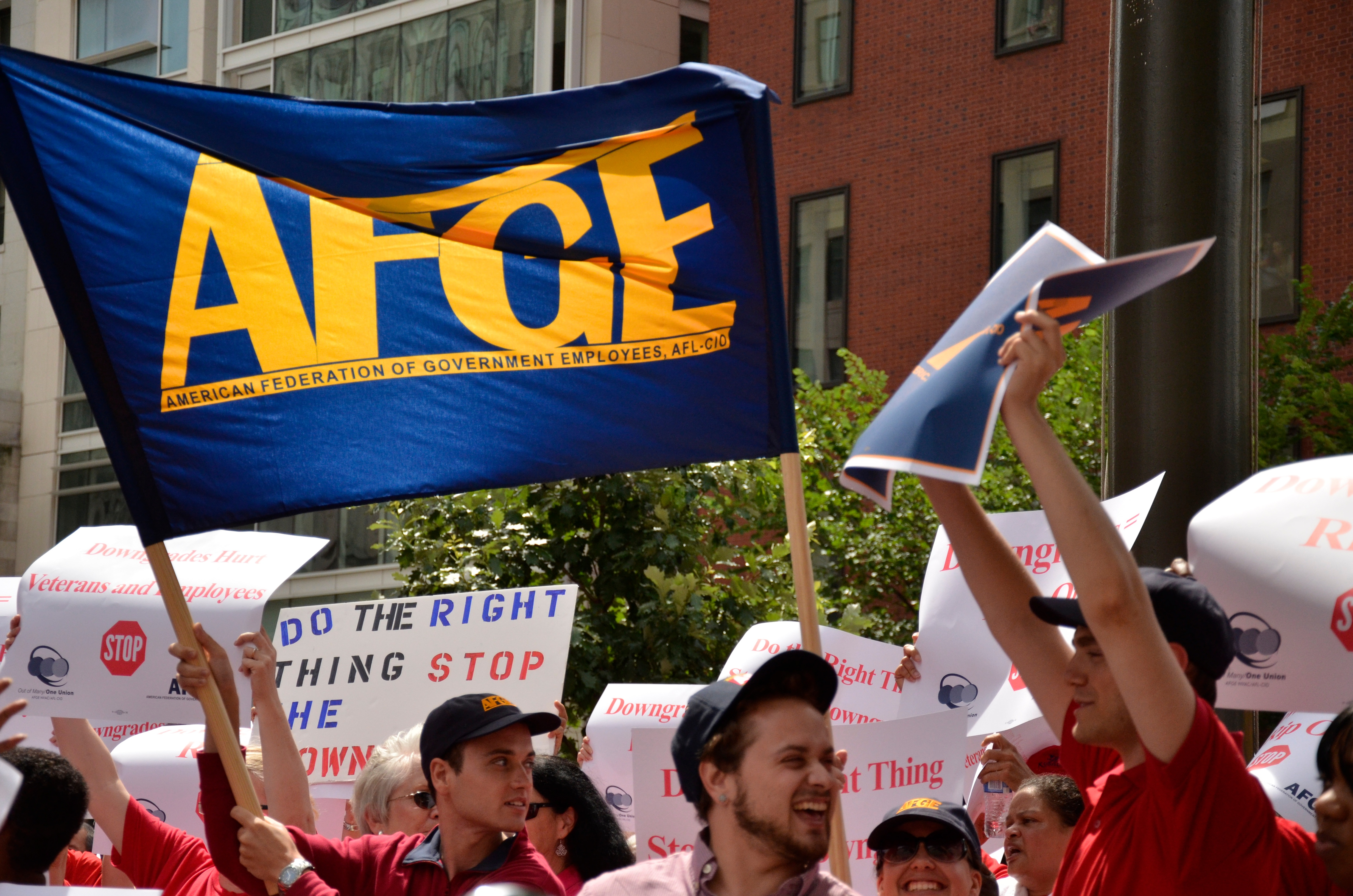 Rally by the american Federation of Government Employeees (AFGE) union to avoid cuts in the Veteran's Affair Department, 2012.